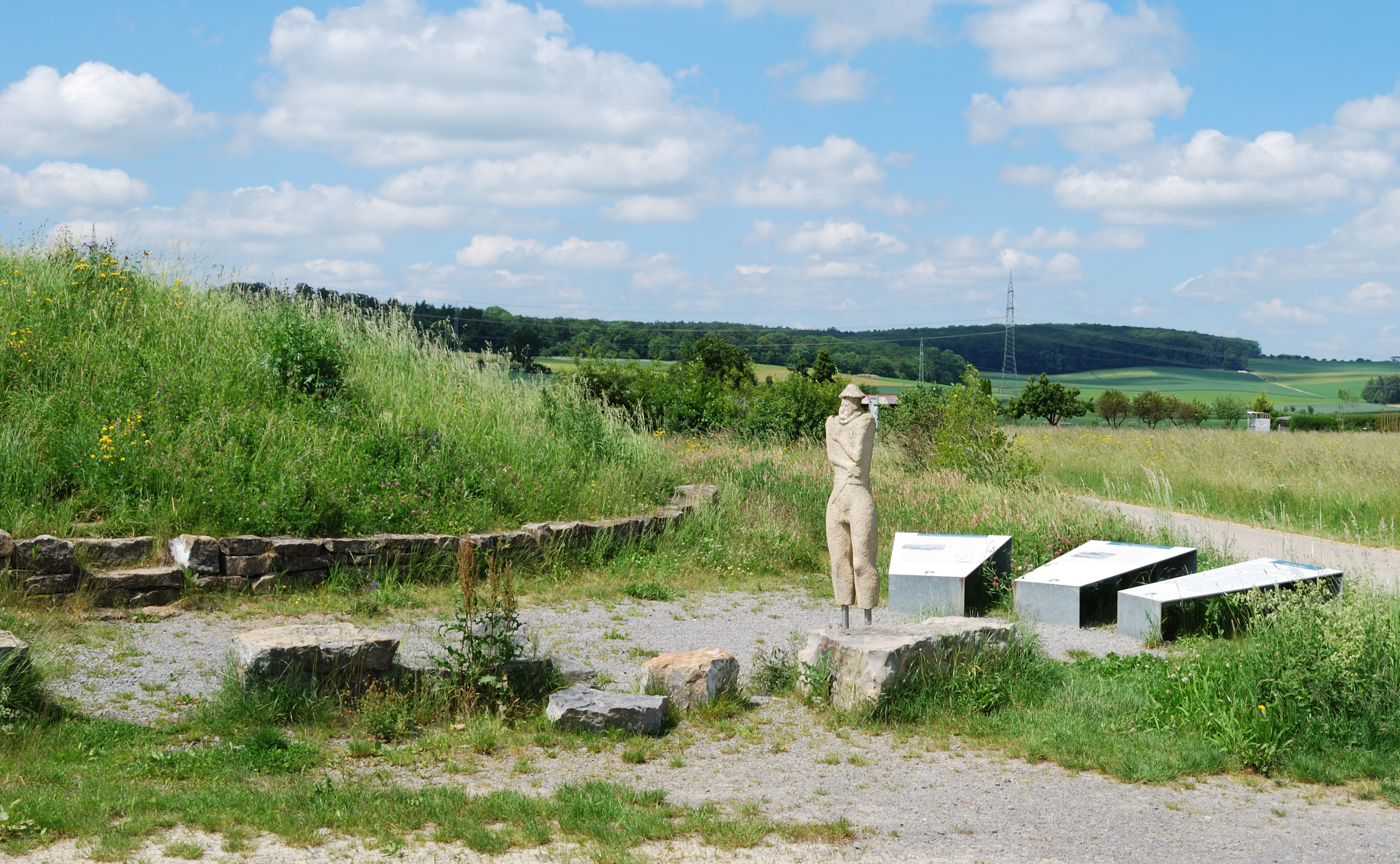 Findspot of the Warrior of Hirschlanden with a copy of the statue and of the barrow and with information panels (1), (2), (3).